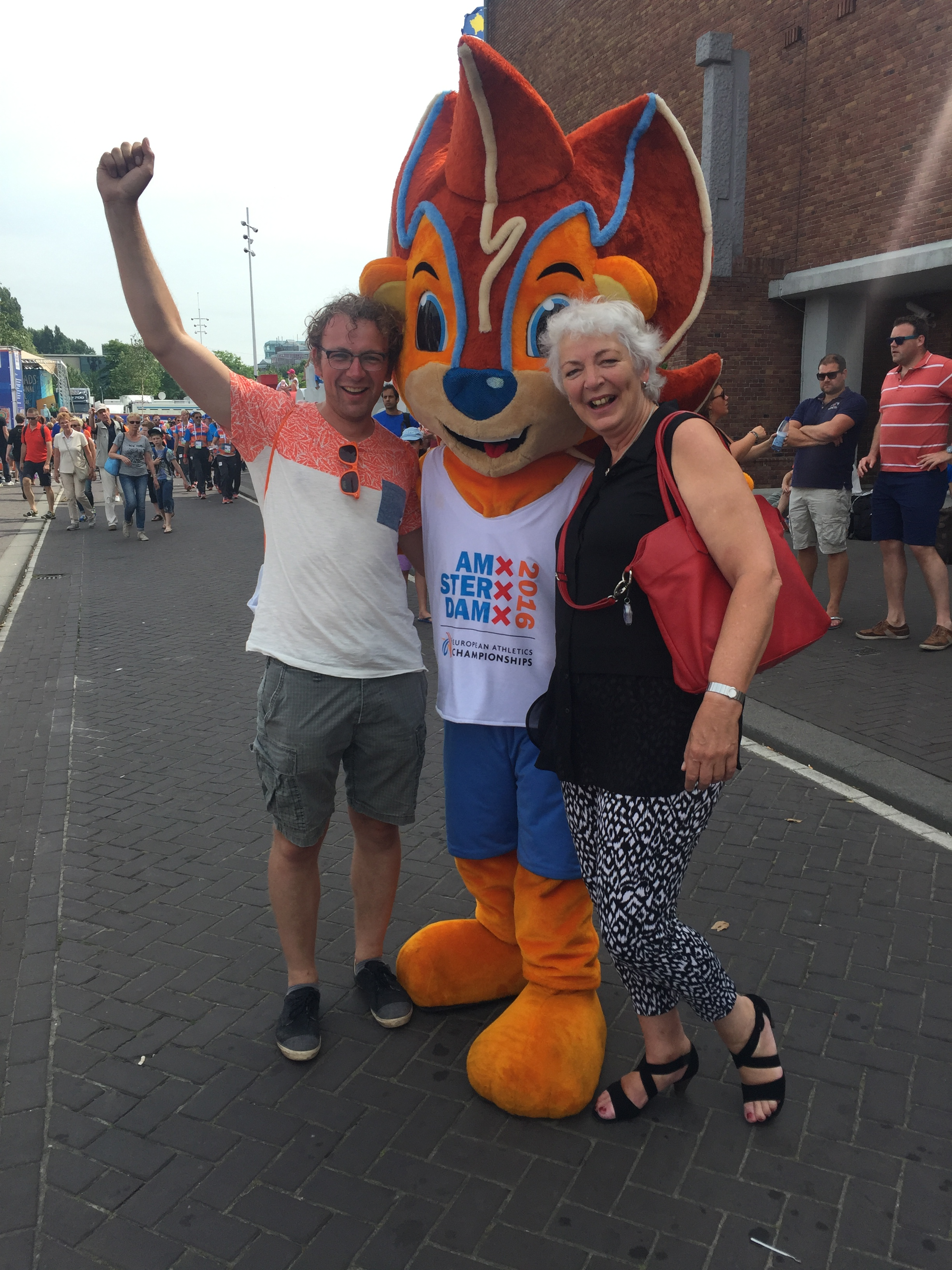 European Athletic Championships 2016 in Amsterdam - 10 July 2016 European Championships in Athletics (10 August) Schedule for this day: Finals: 17:00 High Jump M 17:05 400m Hurdles W 17:10 Hammer Throw M 17:15 3000m Steeplechase W 17:25 Triple Jump W 17:30 Shot Put M 17:35 4 x 100m W 17:45 1500m W 17:55 4 x 100m M 18:10 5000m M 18:30 800m M 18:40 4 x 400m W 18:50 4 x 400m M